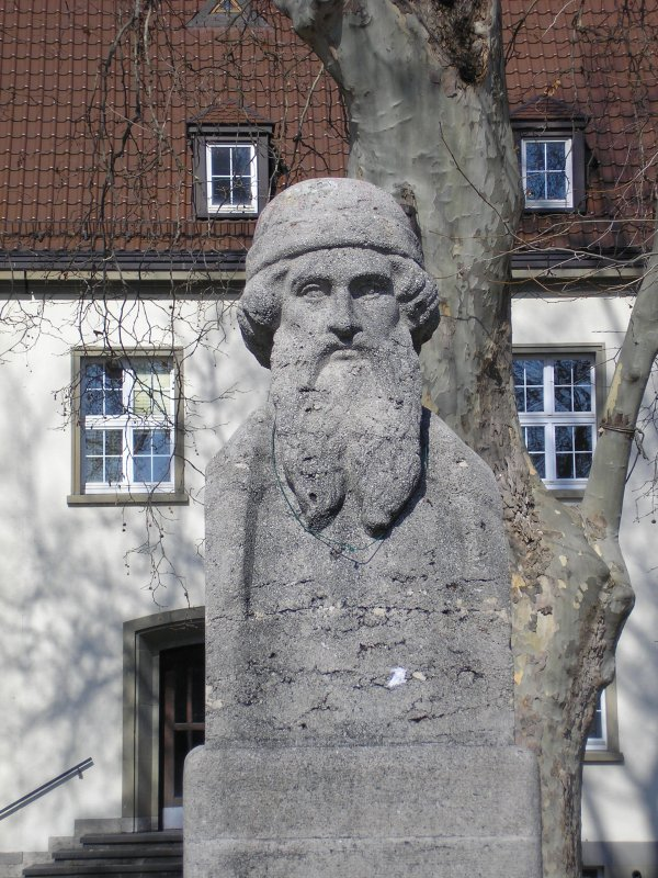 Statue of Johann Gutenberg on the Campus of the Johannes Gutenberg-University in Mainz, Germany